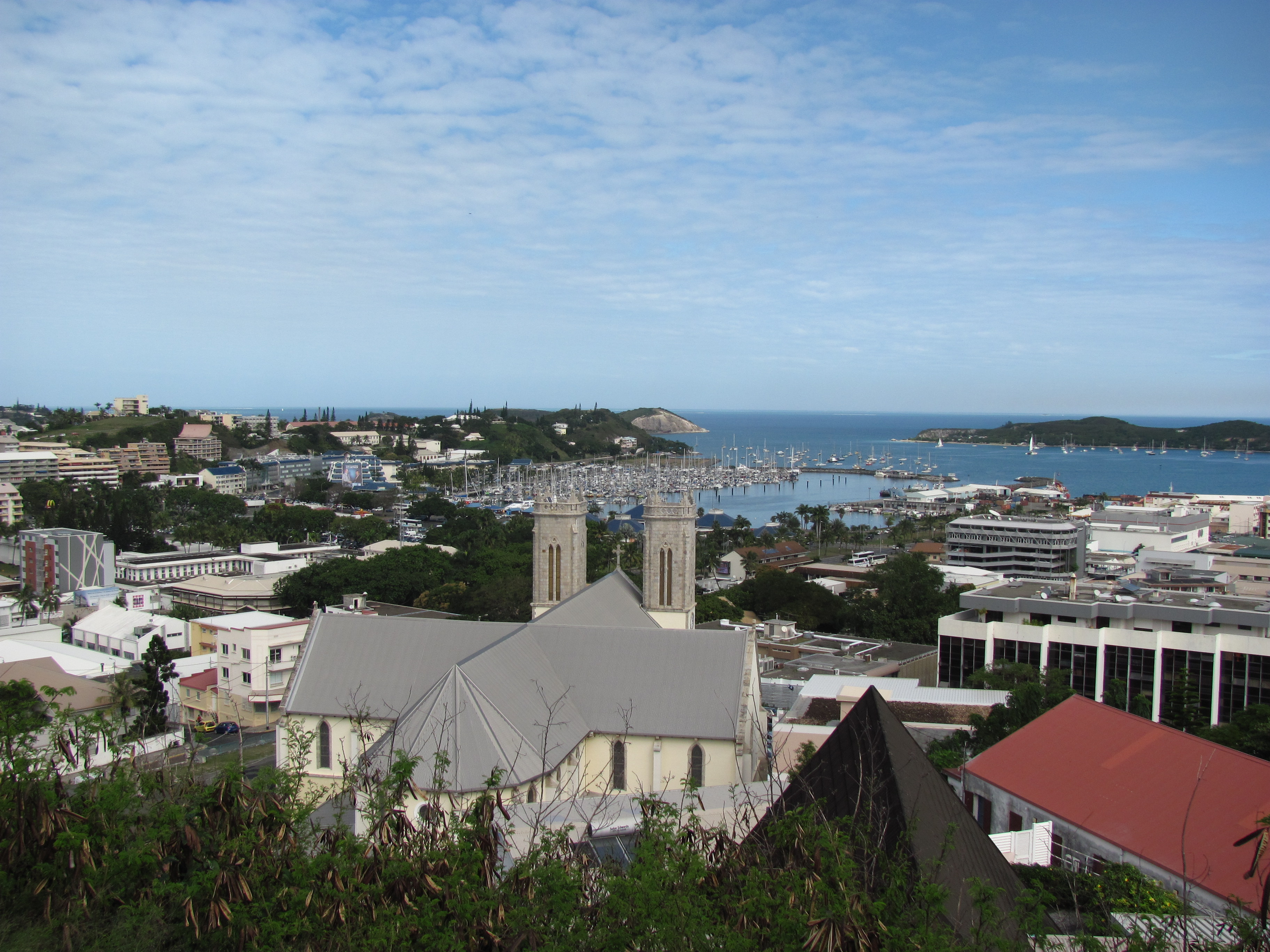 General view, centre of Nouméa, New Caledonia